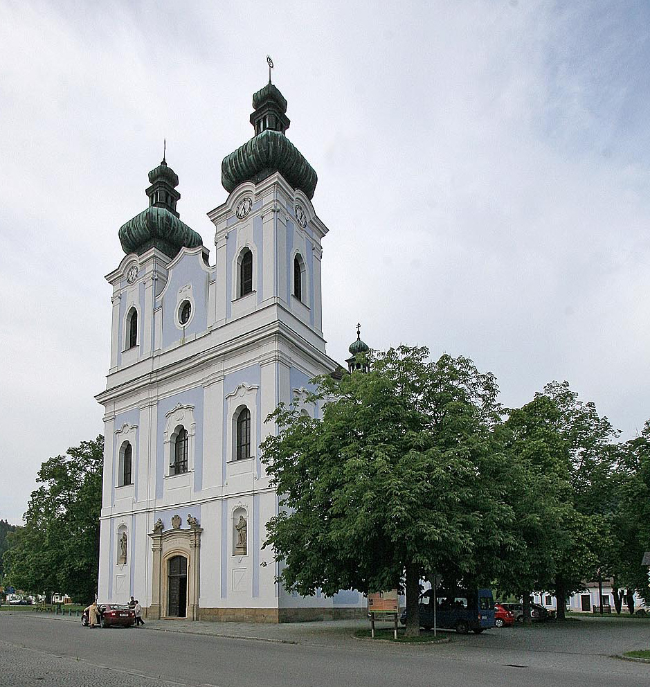 Our Lady of Sorrows church in Sloup, Blansko District, Czech Republic.